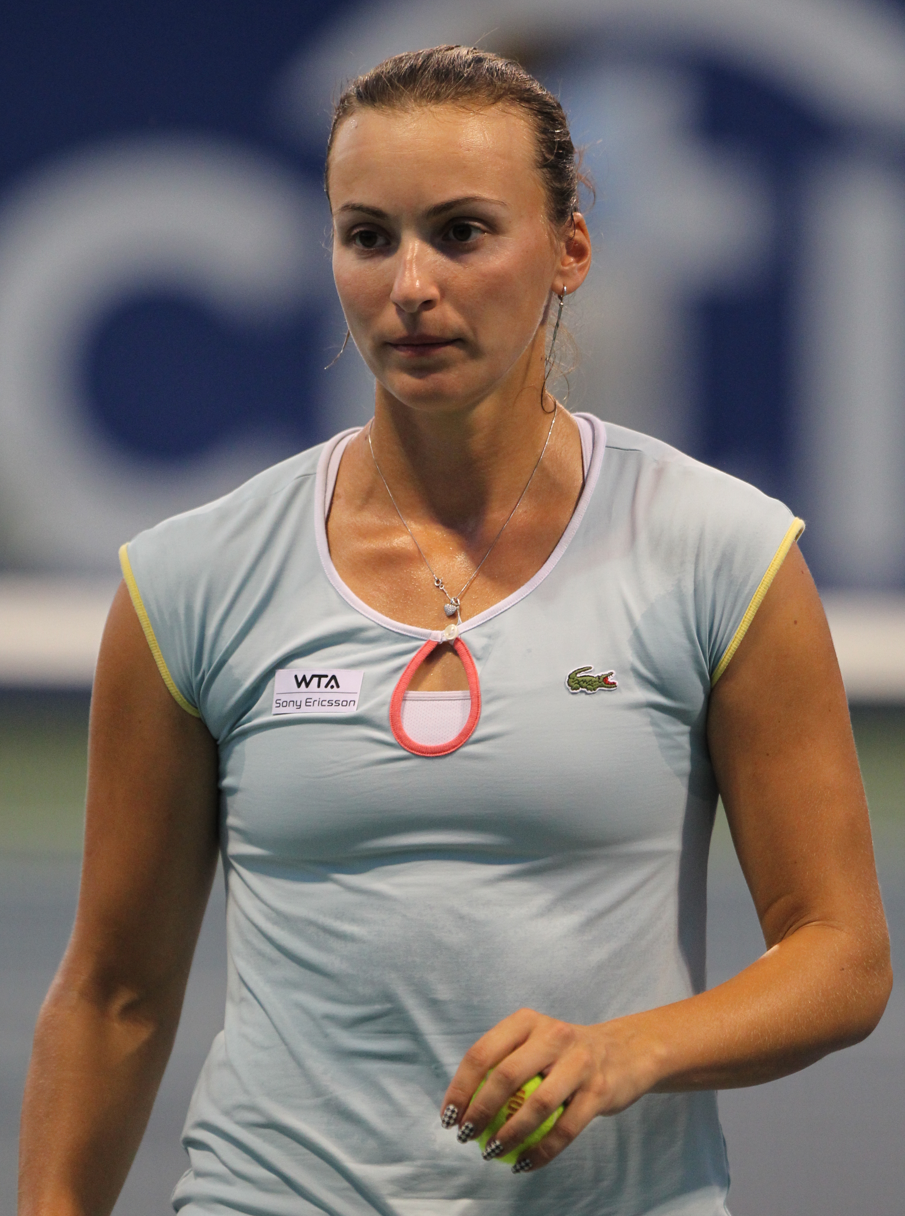 Citi Open Tennis July 30, 2011